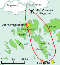 A map showing the flight path of Qantas Flight 32 on 4 November 2010 when it suffered a turbine engine failure and made an emergency landing at Singapore Changi Airport. The failure was the first of its kind for the four-engined Airbus A380.